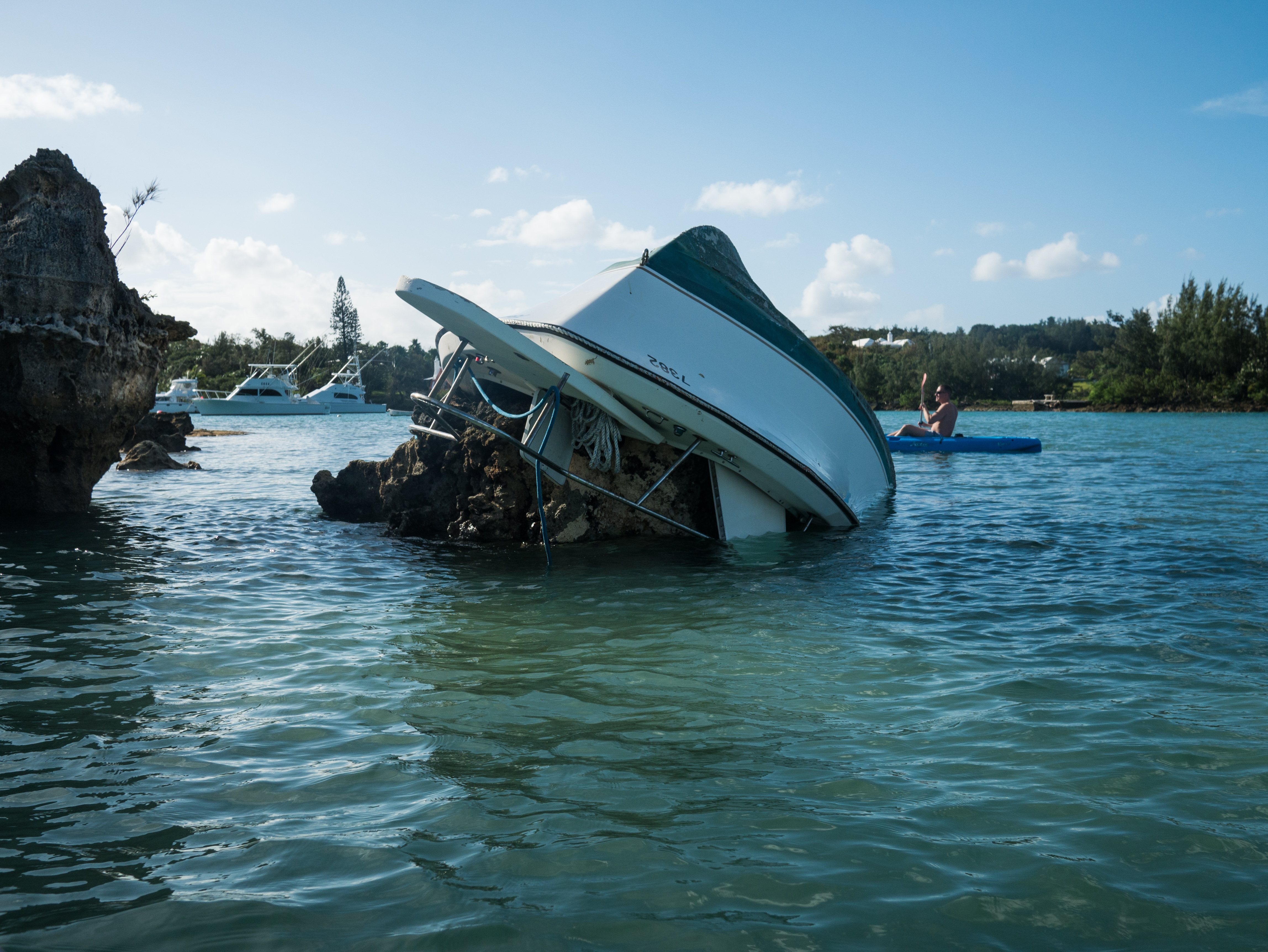 A yacht wrecked by Hurricane Fay (2014) in Bermuda. Original description: "Tropical Storm Fay did a lot of damage. We saw a bunch of wrecked boats like this one as we paddled around."